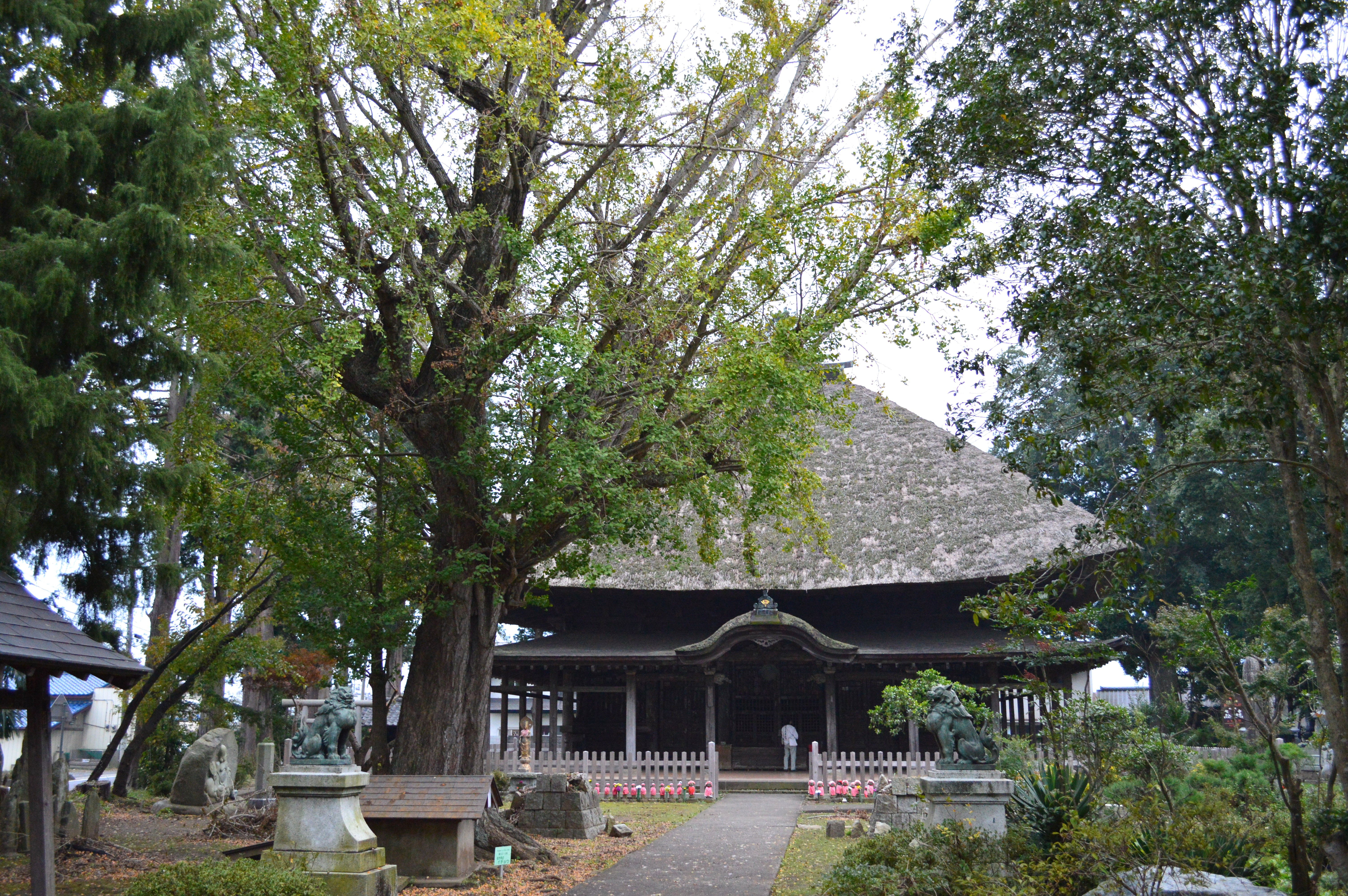 Satake-ji temple in Hitachiōta, Ibaraki